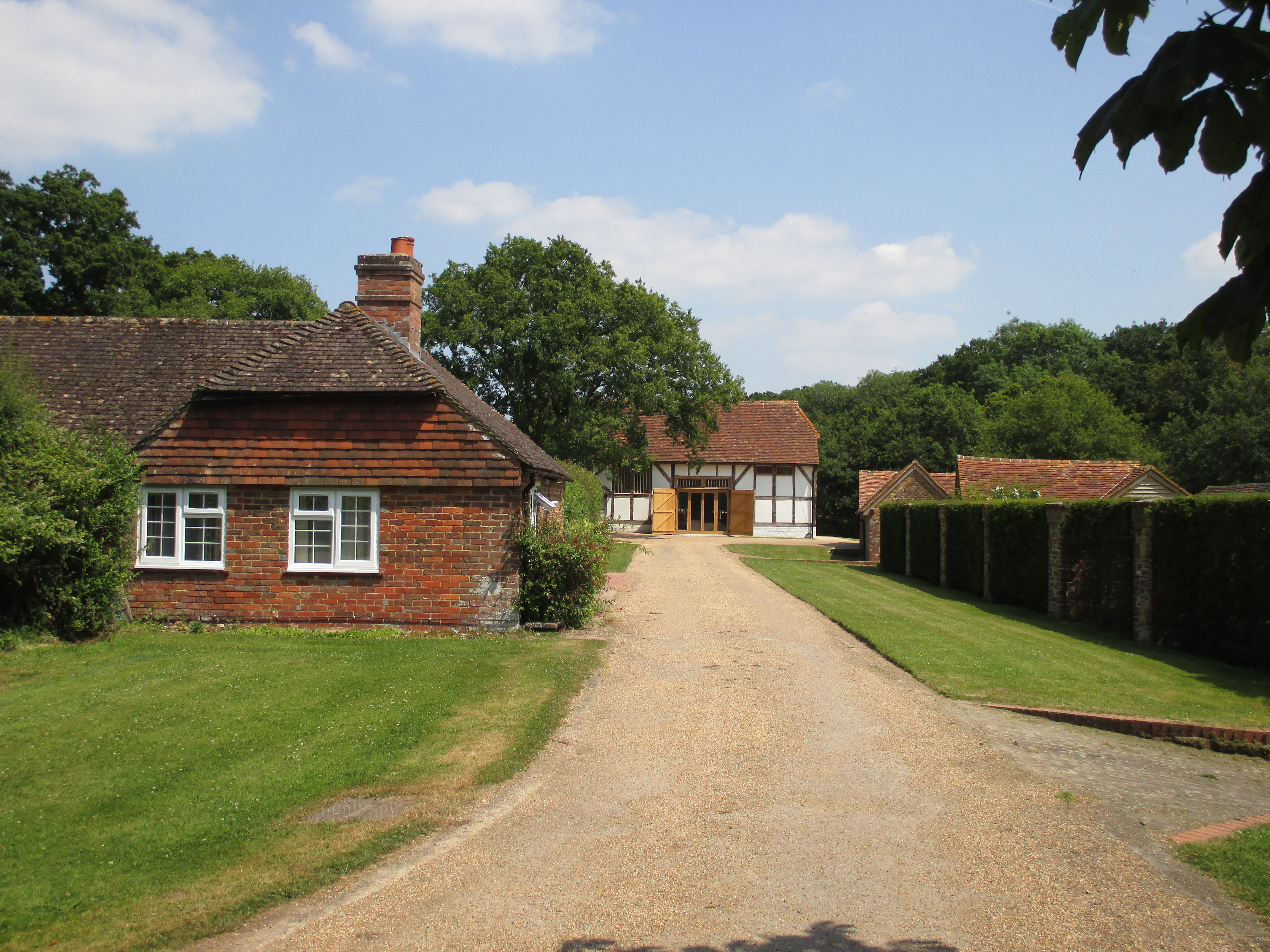 Outbuildings of Lackenhurst, Coolham Road, Brooks Green, West Sussex.